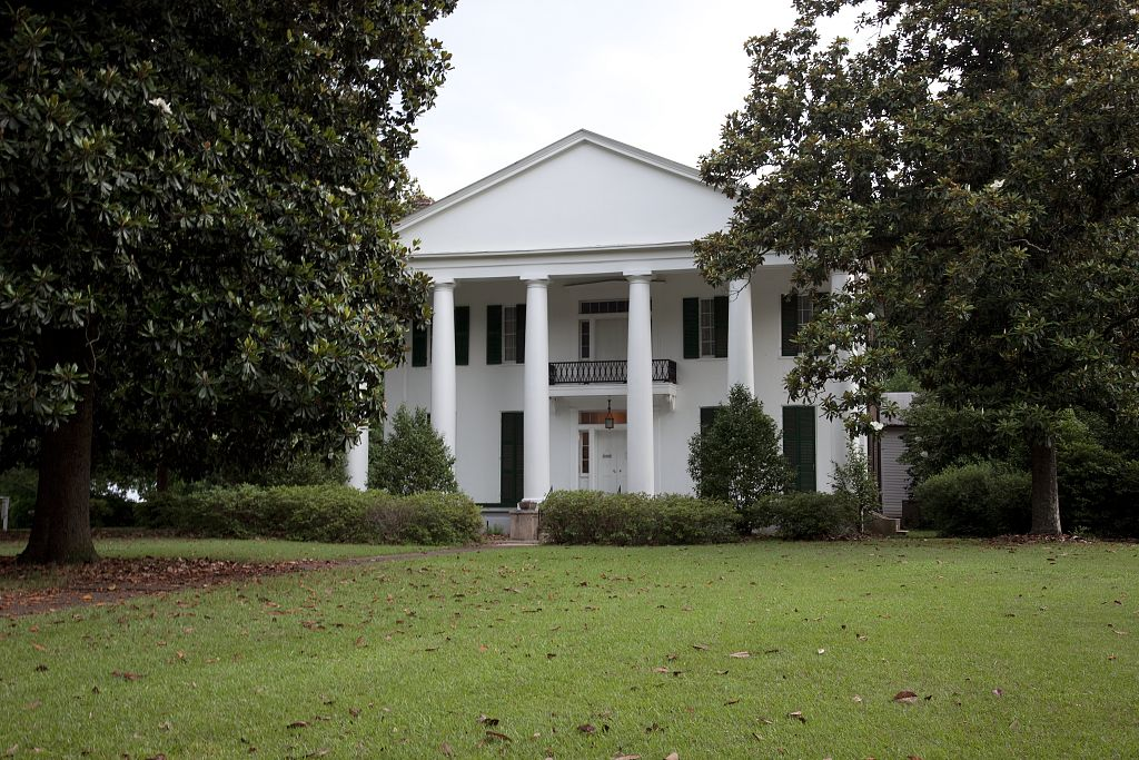 Magnolia Grove Plantation, Greensboro, Alabama.